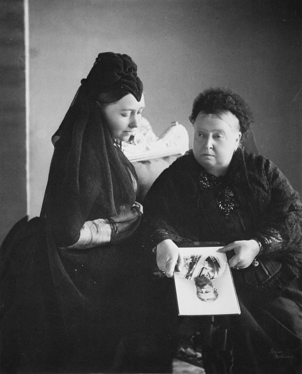 Queen Victoria with her eldest daughter Empress Frederick.